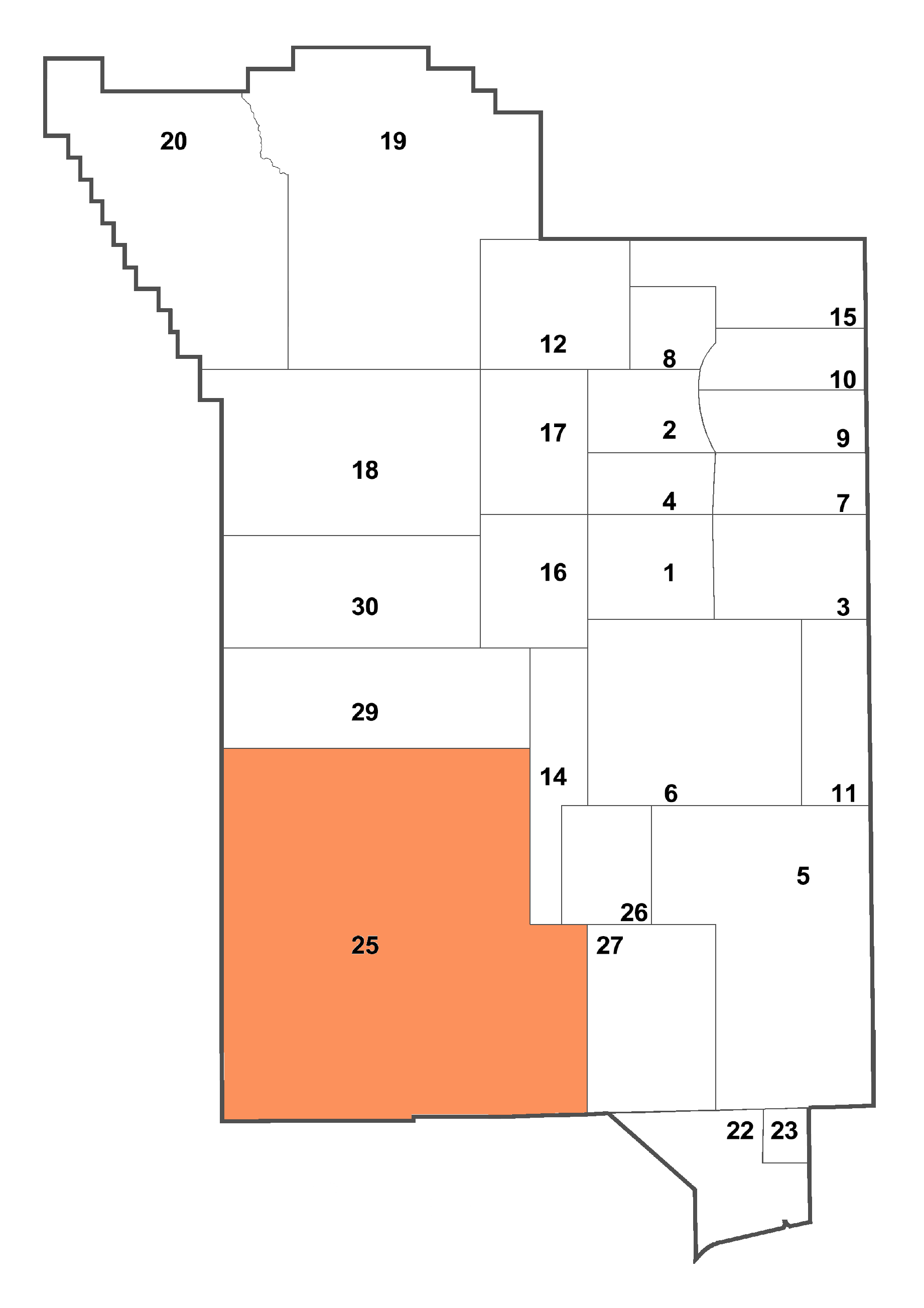 This is a derivative work based on a map taken from a PDF published by Nevada Risk Assessment/Management Program, Nevada Test Site, a part of the US Department of Energy.